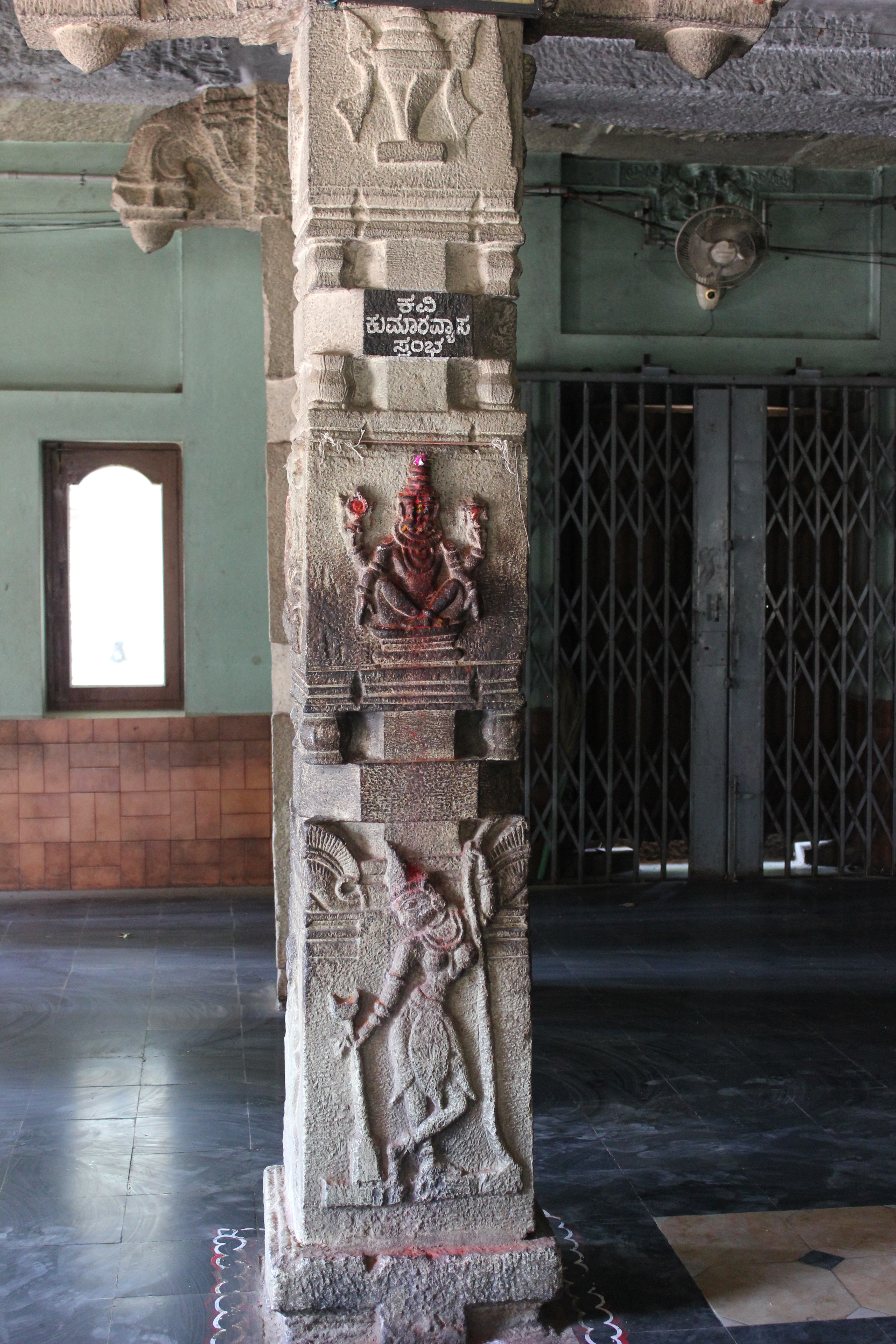 This photograph was taken at the Veeranarayana temple built by Hoysala king Vishnuvardhana in Gadag city, Karnataka state, India. The pillar is called "Kumaravyasa pillar" (Kumaravyasa stambha) because it was here, at this pillar, that the great Kannada poet Kumara Vyasa sat to write his epic Kumaravyasa Bharata or Gadugina Bharata, a Kannada language adaptation/version of the Hindu epic Mahabharata.